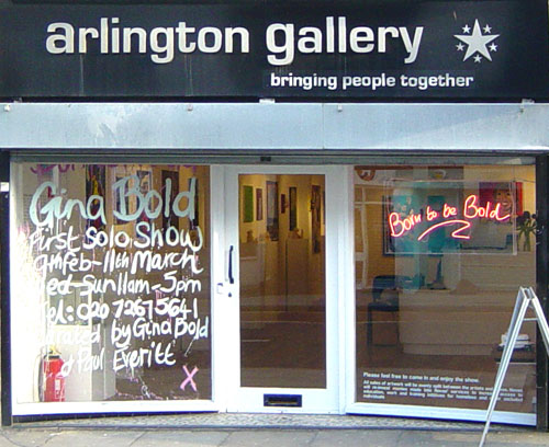 Arlington Gallery, Parkway, Camden, London (now renamed Novas Gallery), during Gina Bold's show, "Born to Be Bold", 9 February - 11 March 2007.